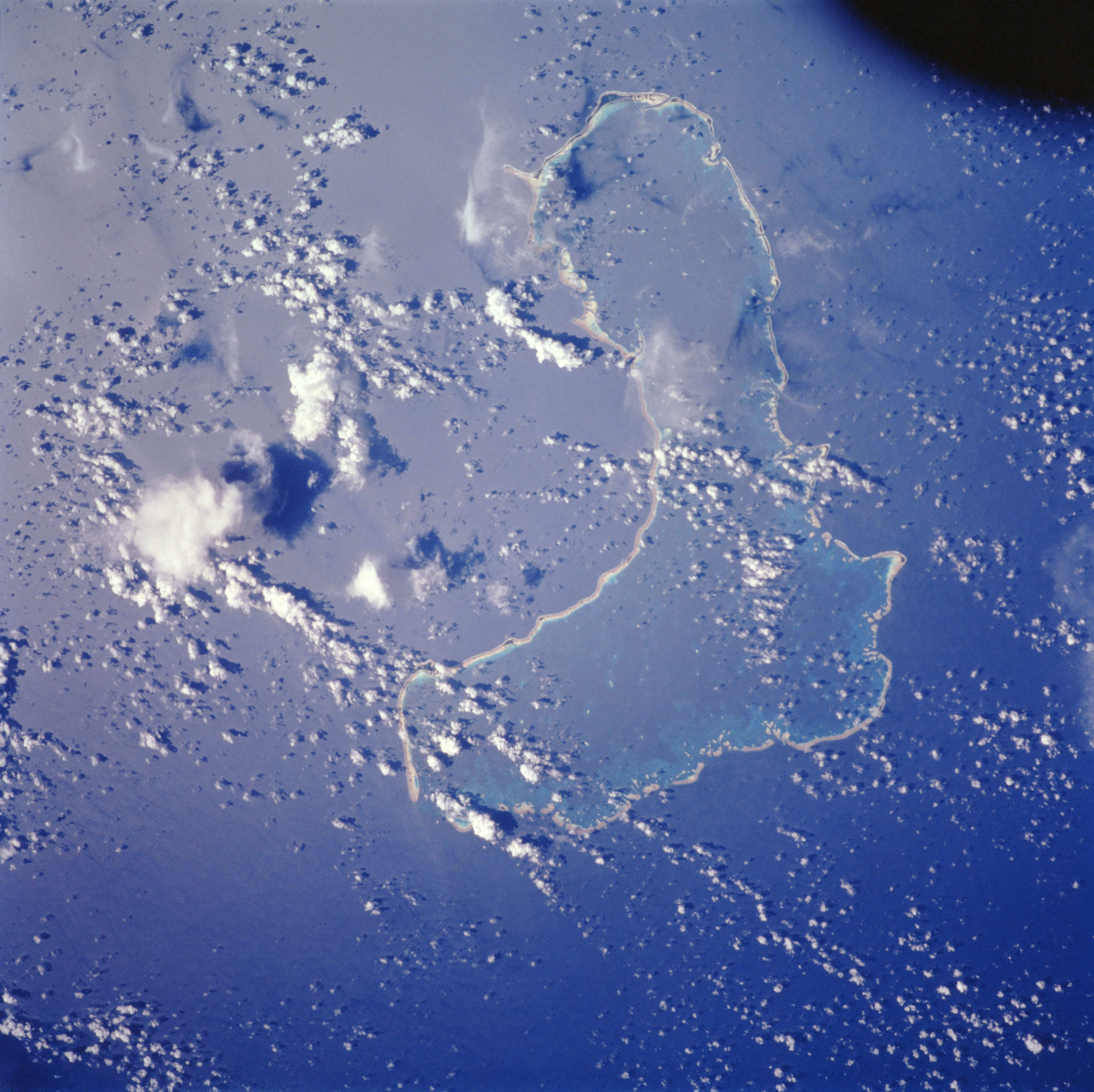 NASA astronaut image of Solomon Islands, Ontong Java, Reef in the Pacific Ocean